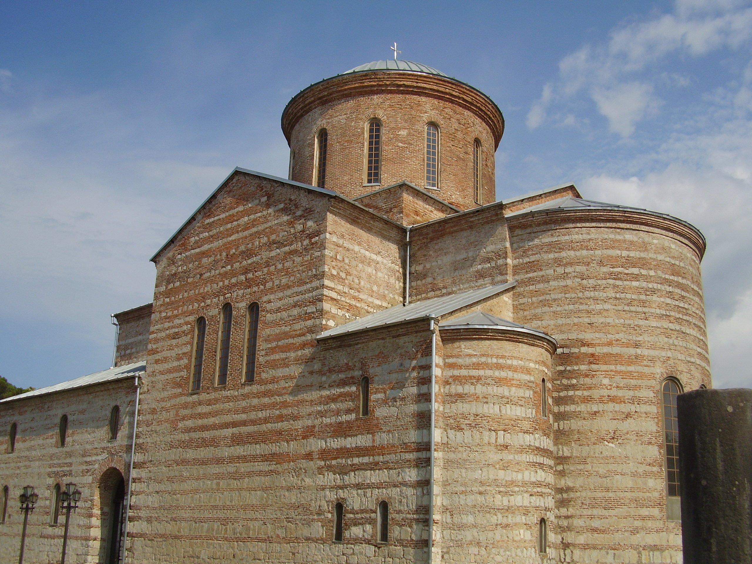 Cathedral in Pitsunda, Abkhazia